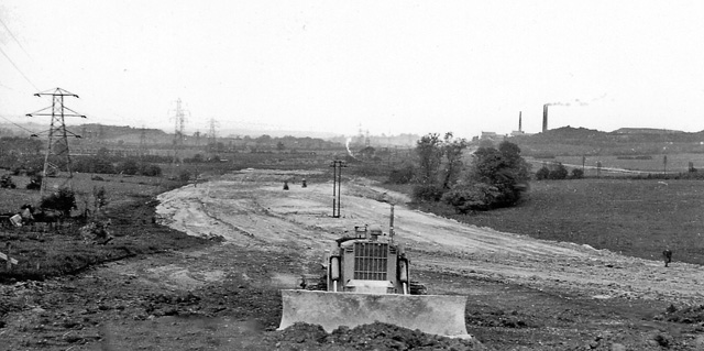 M1 Motorway under construction. Northward from bridge of B579 near Chalton, during early stages of construction - all very exciting at the time, although this was a Sunday. Note Sundon Brickworks over to right; cf. my TL0325 : M1 Motorway under construction.